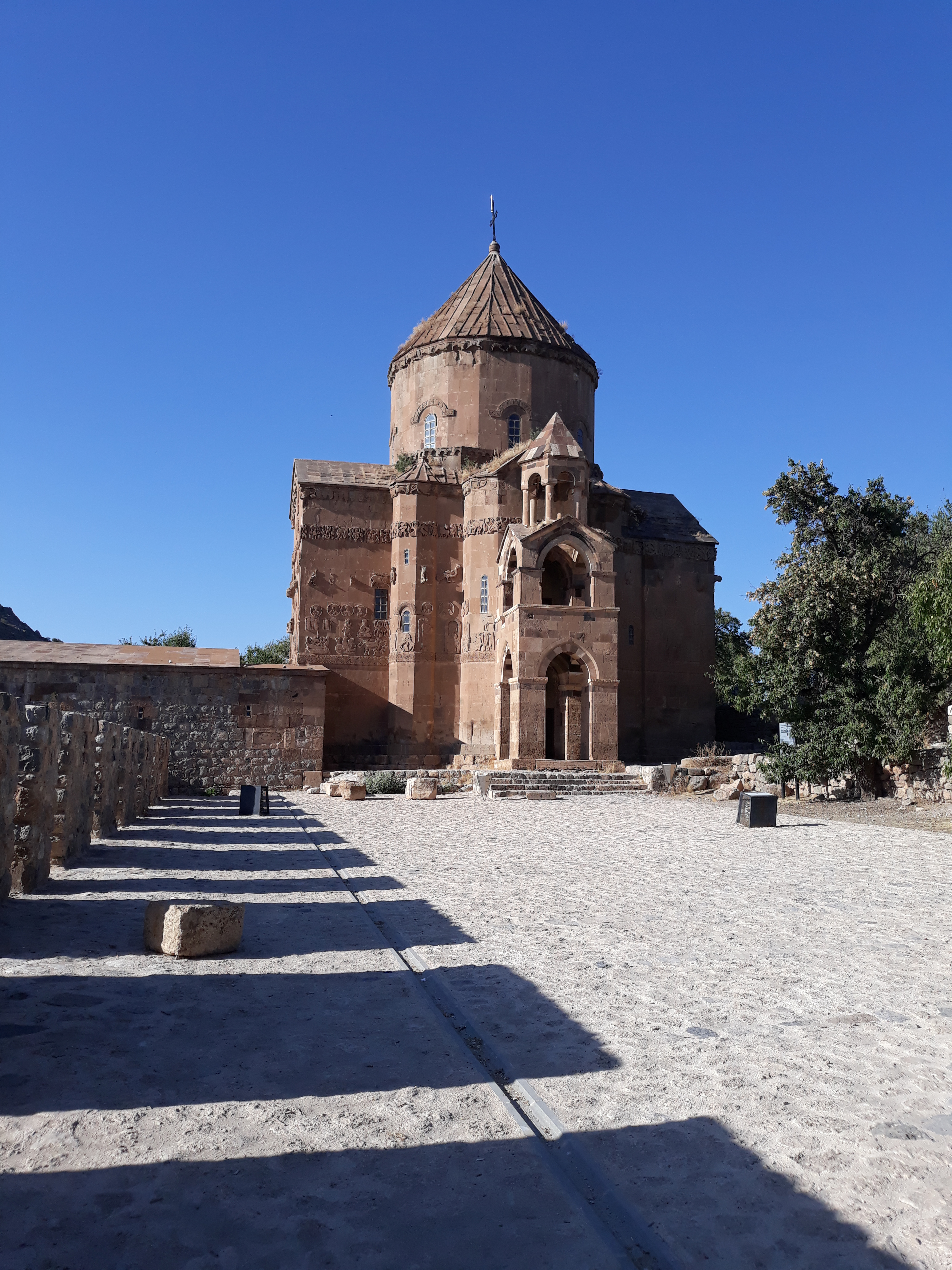 The church of Holy Cross